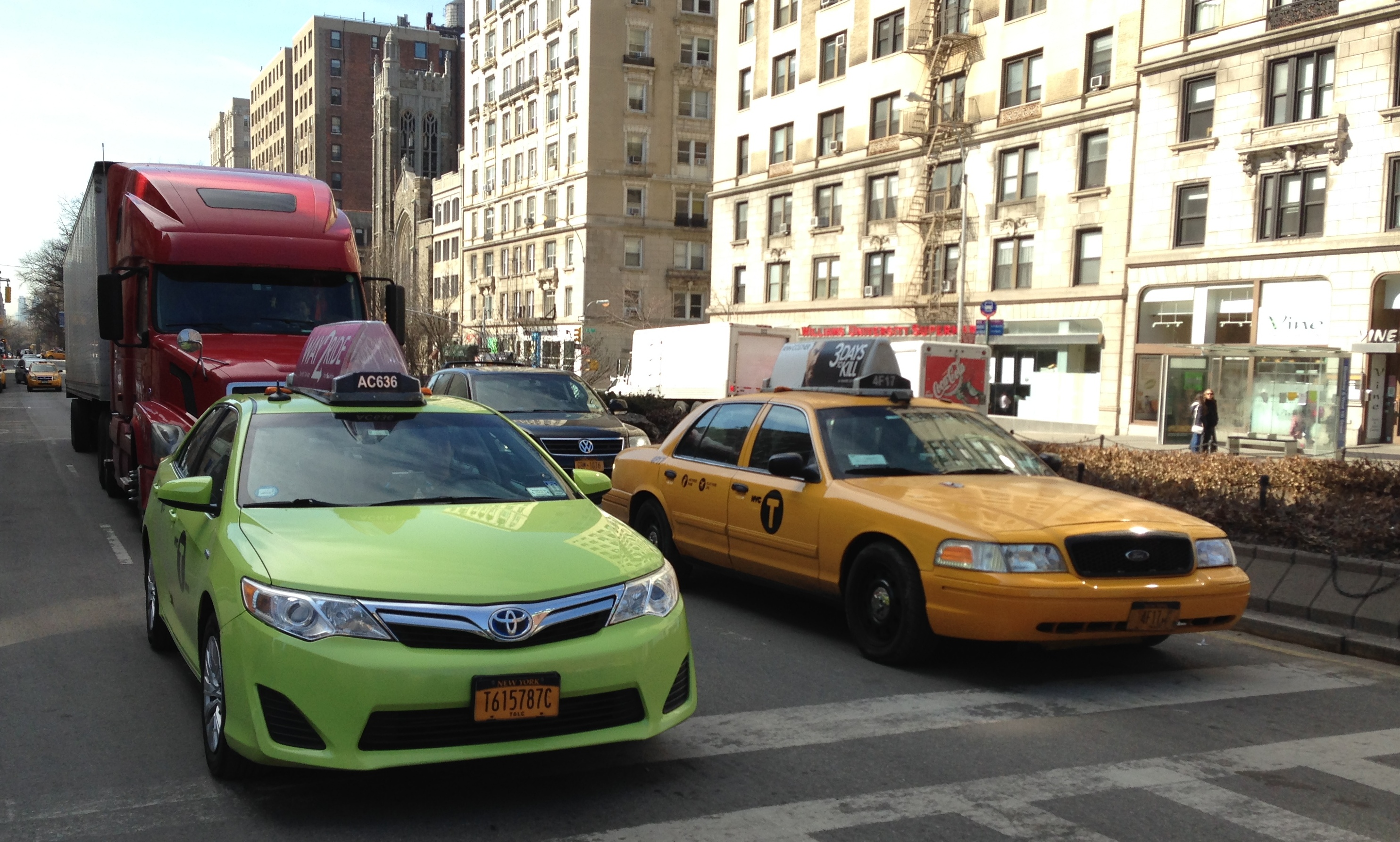 Taxicabs of New York City. Medallion taxi (yellow) on the right. Boro taxi (apple green) on the left.